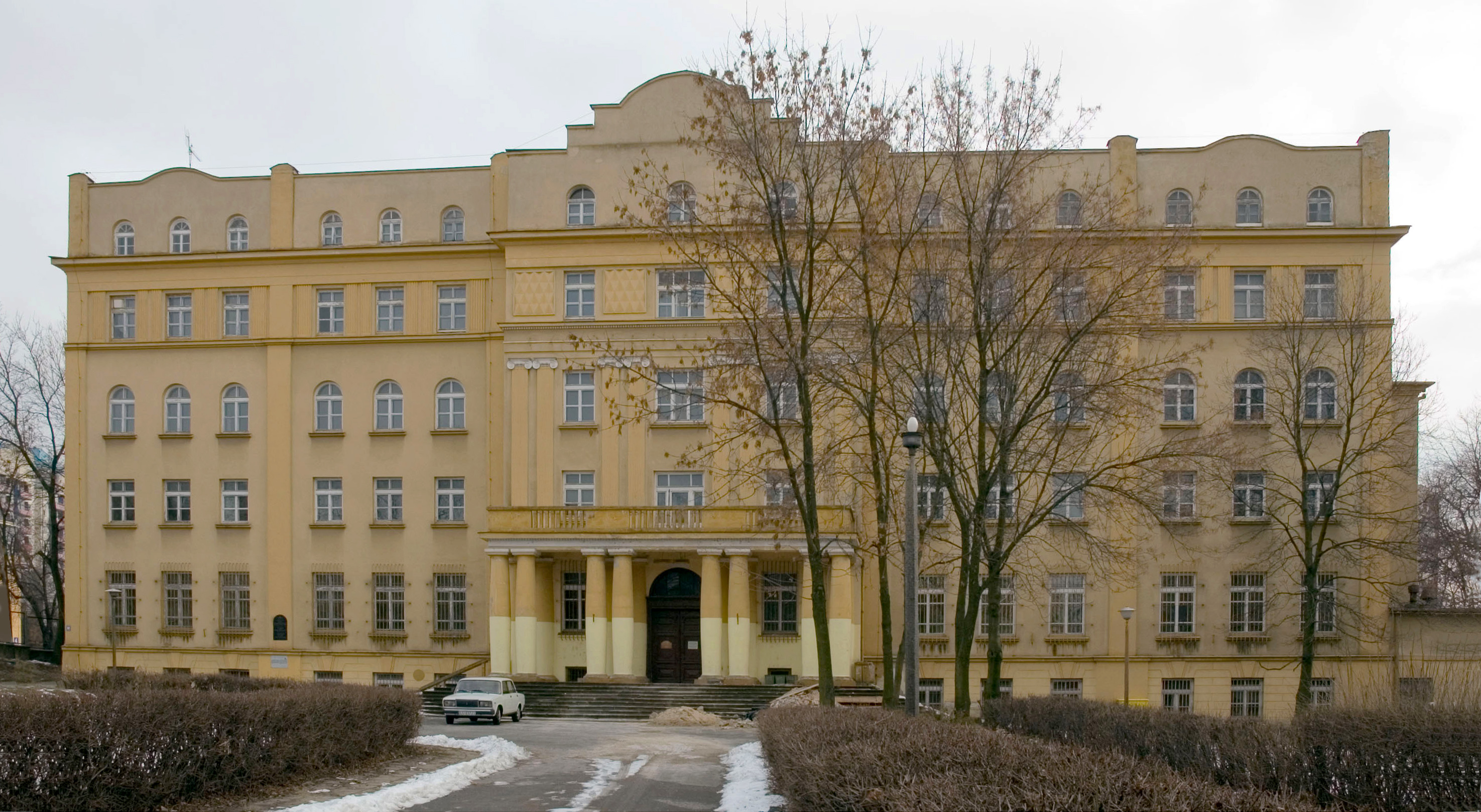 Jeszywas Chachmej Lublin